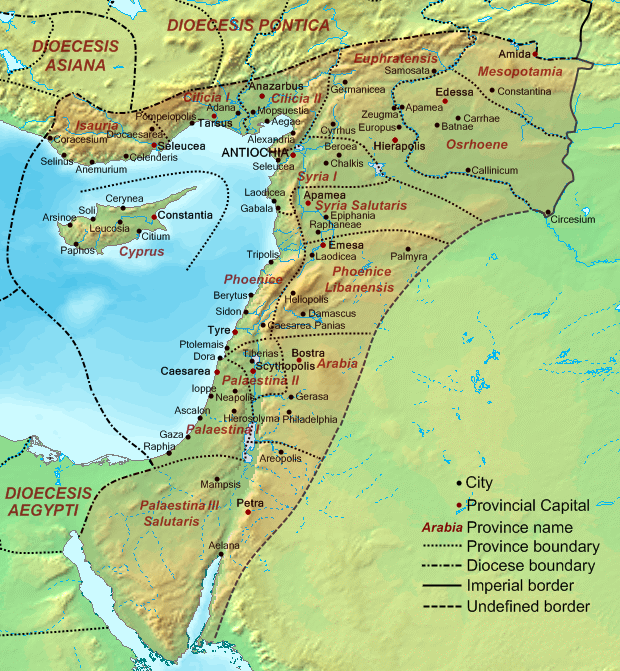 Map of the Diocese of the East (Dioecesis Orientis) ca. 400 AD, showing the subordinate provinces and the major cities.